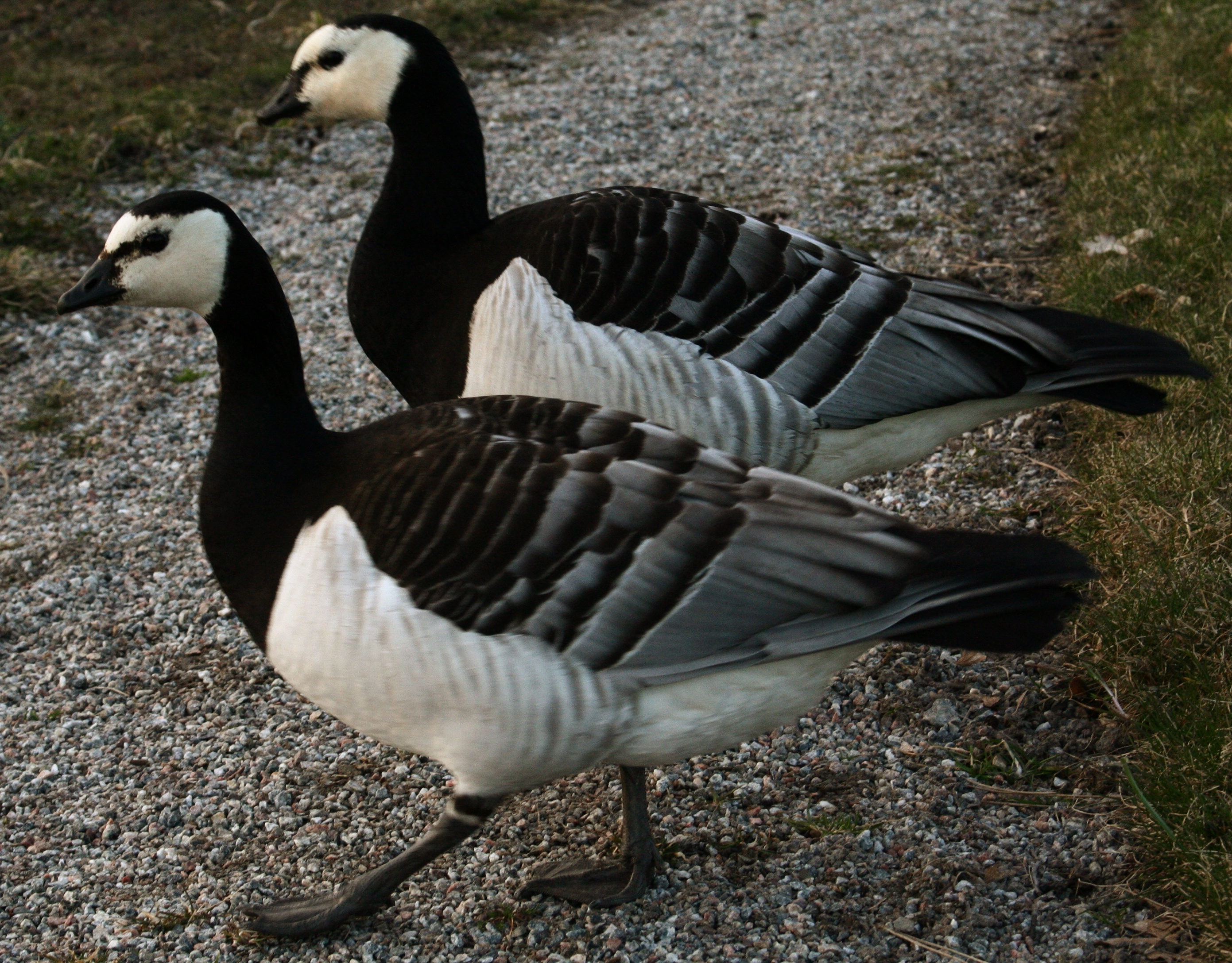 Barnacle Goose (Branta leucopsis), Stockholm, Sweden